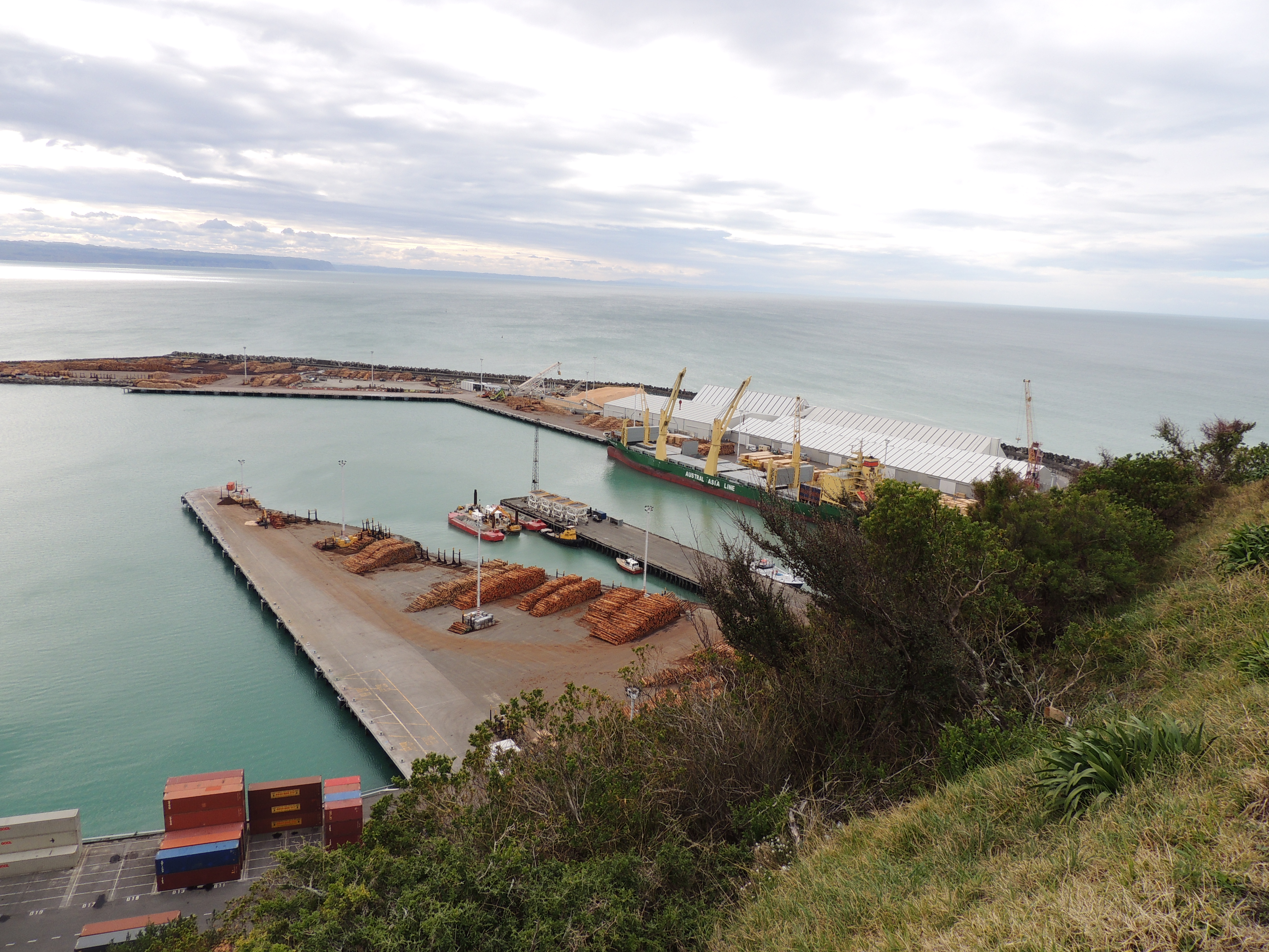 Taken from Bluff Hill Lookout, Napier -- Port of Napier -- Hawkes Bay -- New Zealand napier #portofnapier #bluffhilllookout #Hawkesbay #newzealand 27th July 2014 Picture taken by: Jennifer Whiting